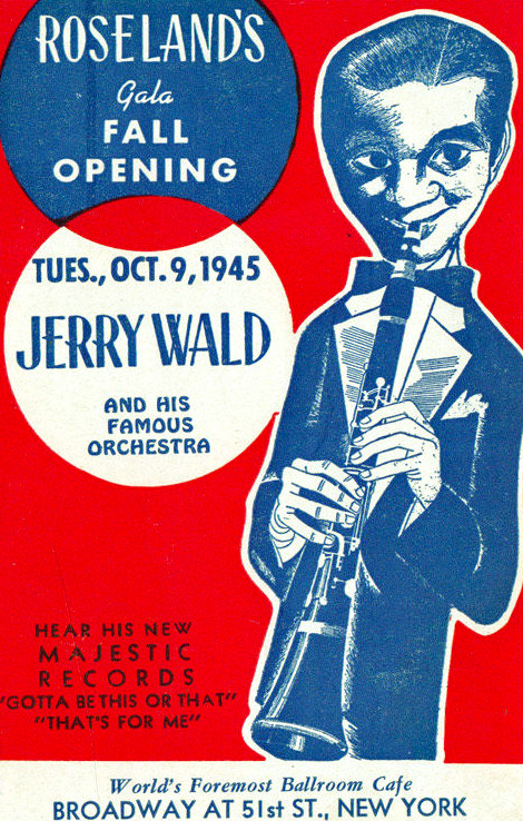 Promotional postcard from the Roseland Ballroom in New York.